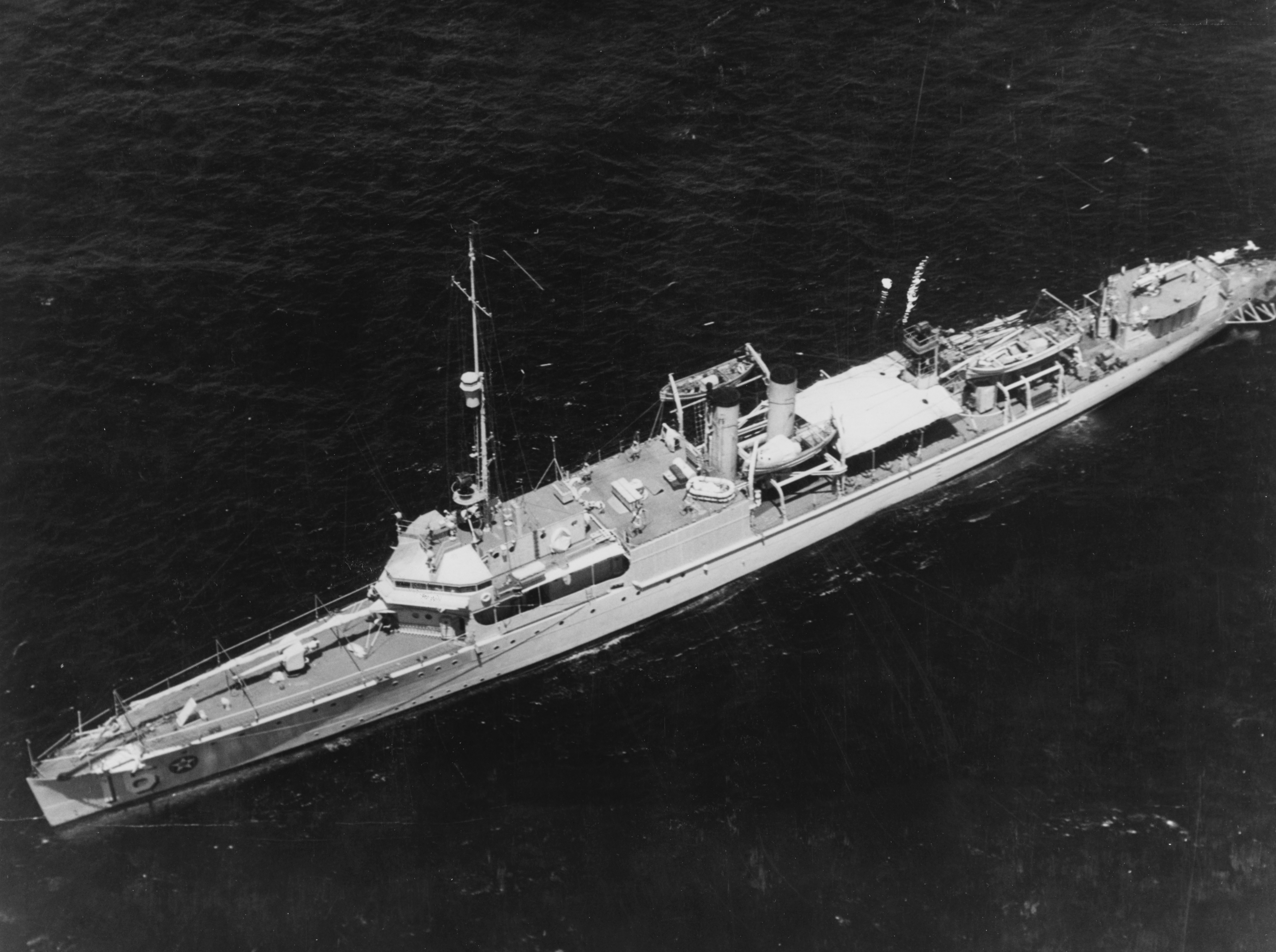 The U.S. Navy destroyer seaplane tender USS George E. Badger (AVP-16) underway, circa on 5 September 1940, by which time she had been redesignated AVD-3. She wears her APD number (16) and the aviation star insignia on her bow and is armed with two 102 mm/50 guns (one forward, one aft) and four 12.7 mm anti-aircraft machine guns (mounted two on each side atop the midships deckhouse).